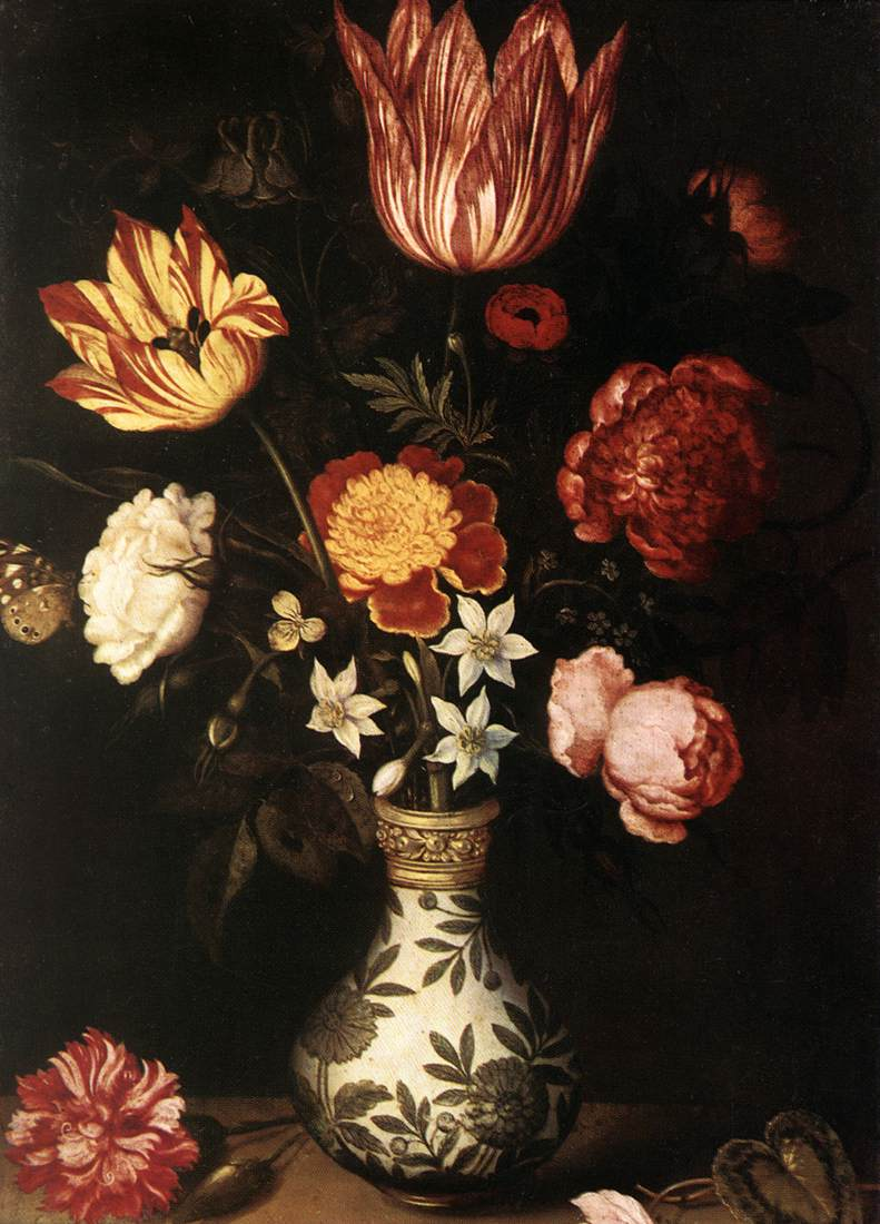 The flowers shown are tulips, peonies, columbines, narcissus, forget-me-nots, a dianthus and a cyclamen.